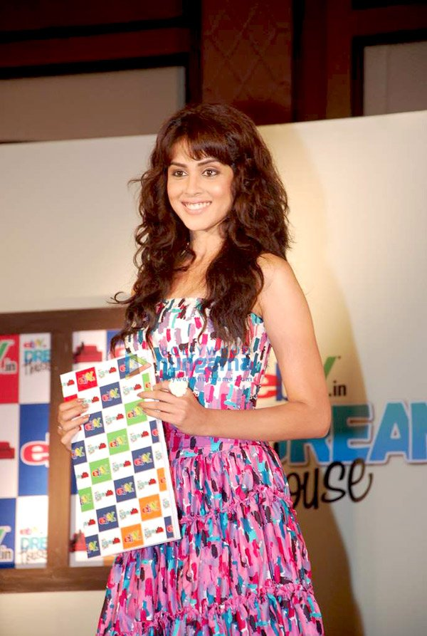 Indian actress Genelia D'Souza at the Ebay Dream House (Bandra, Bombay, India)